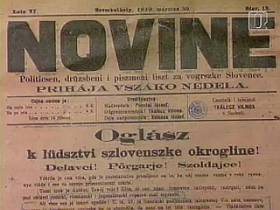 Novine, prekmurian tidings in May, 1919